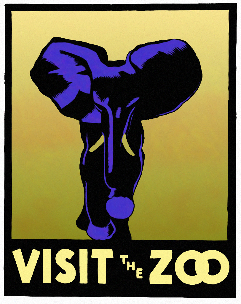 Poster created by the WPA Federal Art Project to promote visits to the zoo